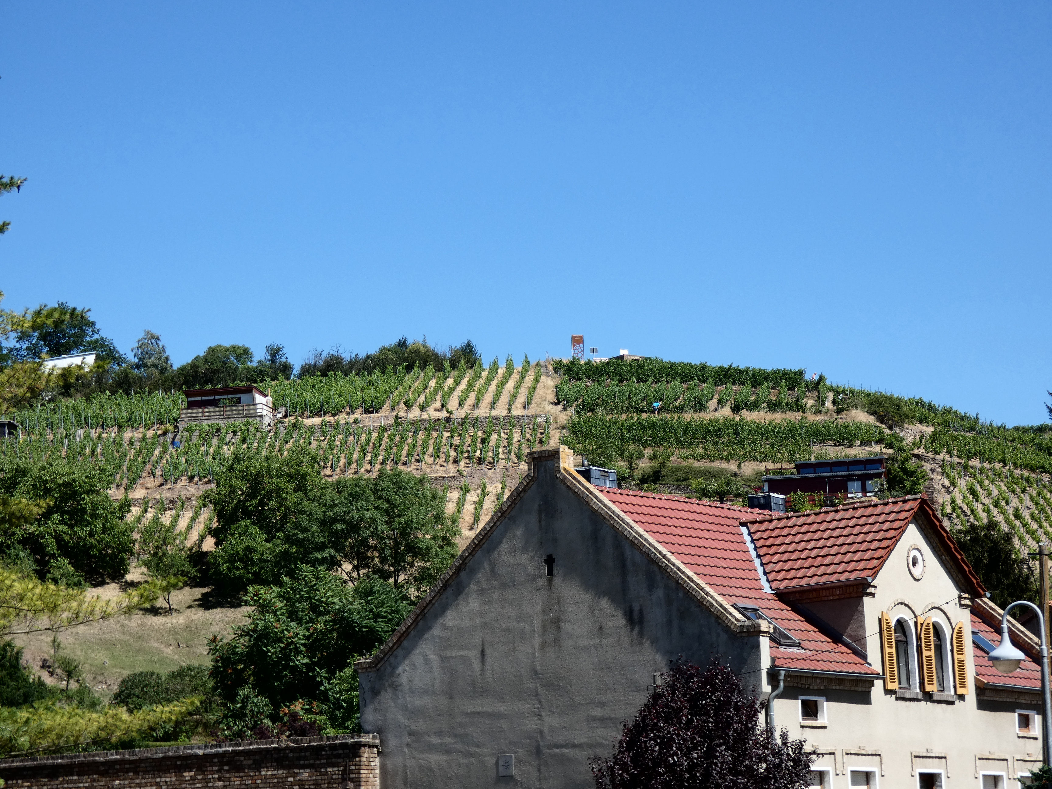 Vineyards in Rollsdorf (Seeburg), municipality Seegebiet Mansfelder Land, Saxony-Anhalt